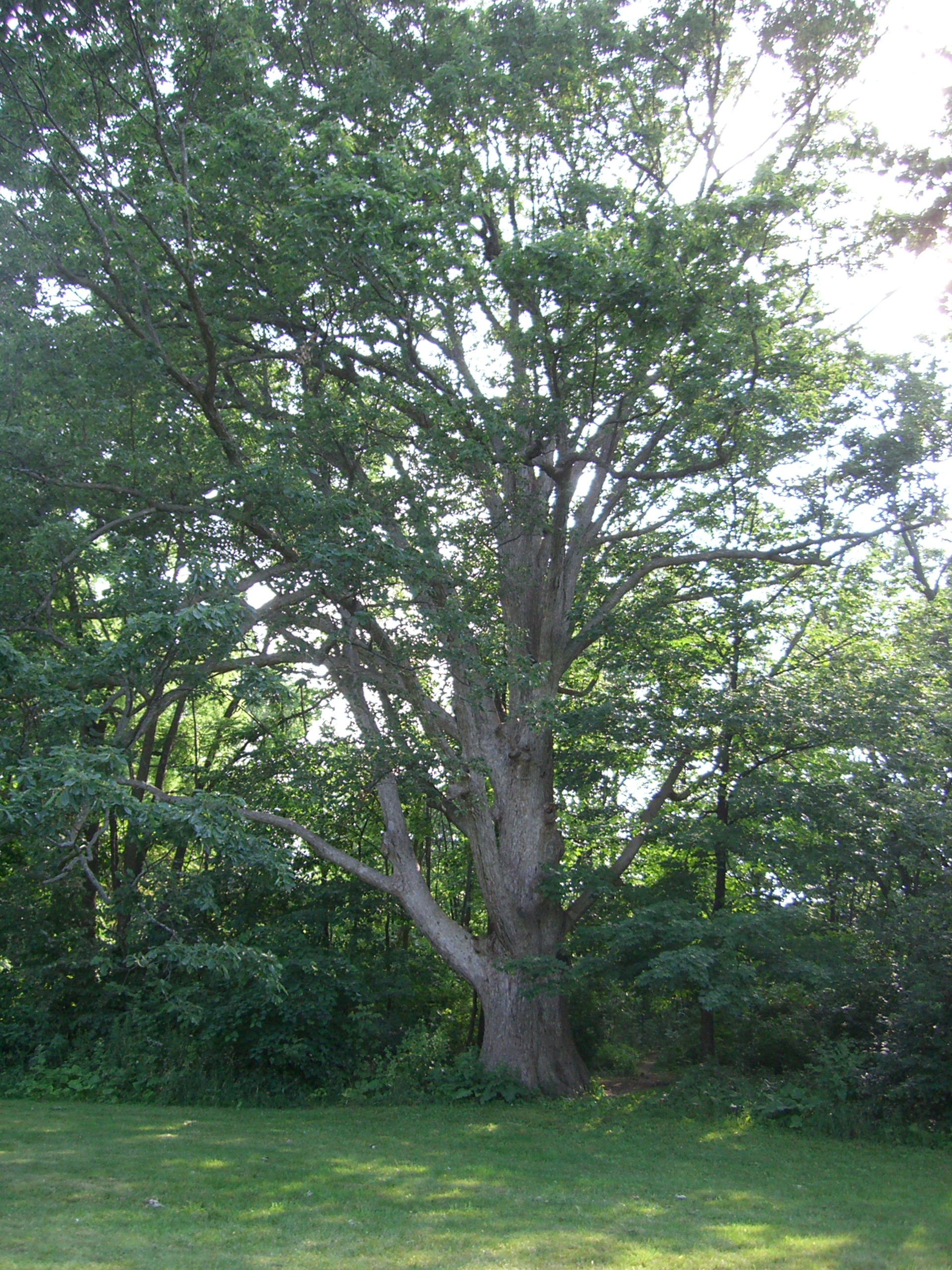 Photo of an 150-year-old chinkapin oak in Ann Arbor, Michigan.